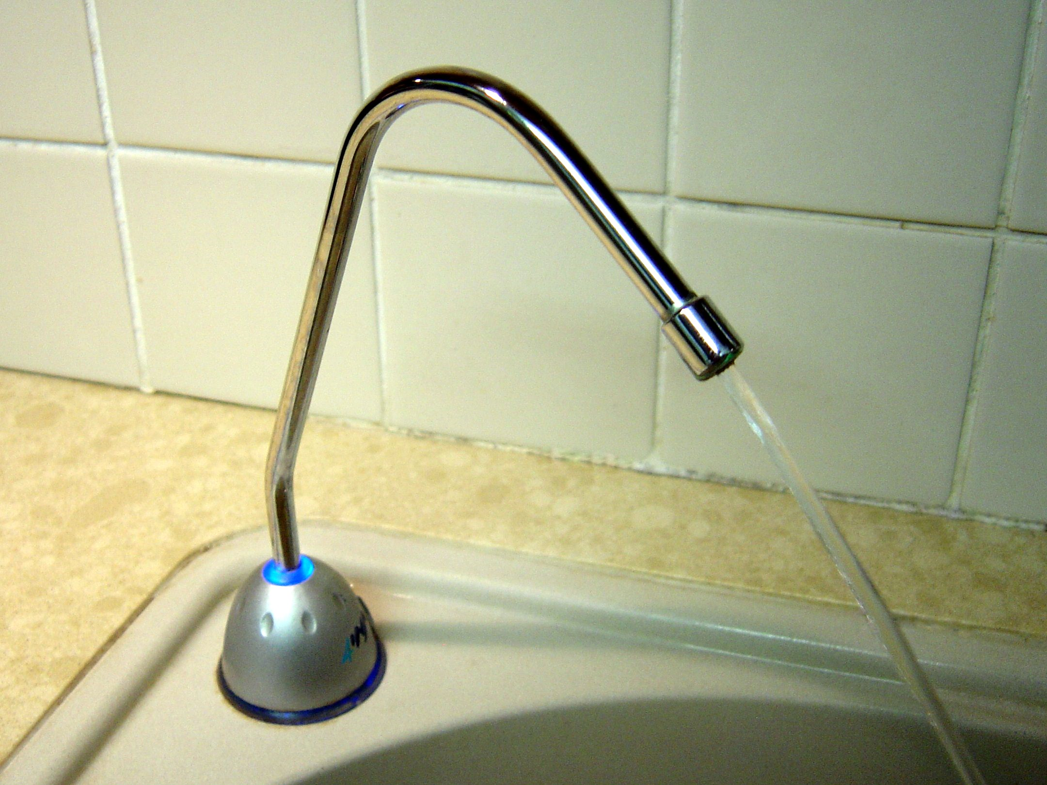 Spout of Tami 4 under sink system, made by Tana water. 2005 model.